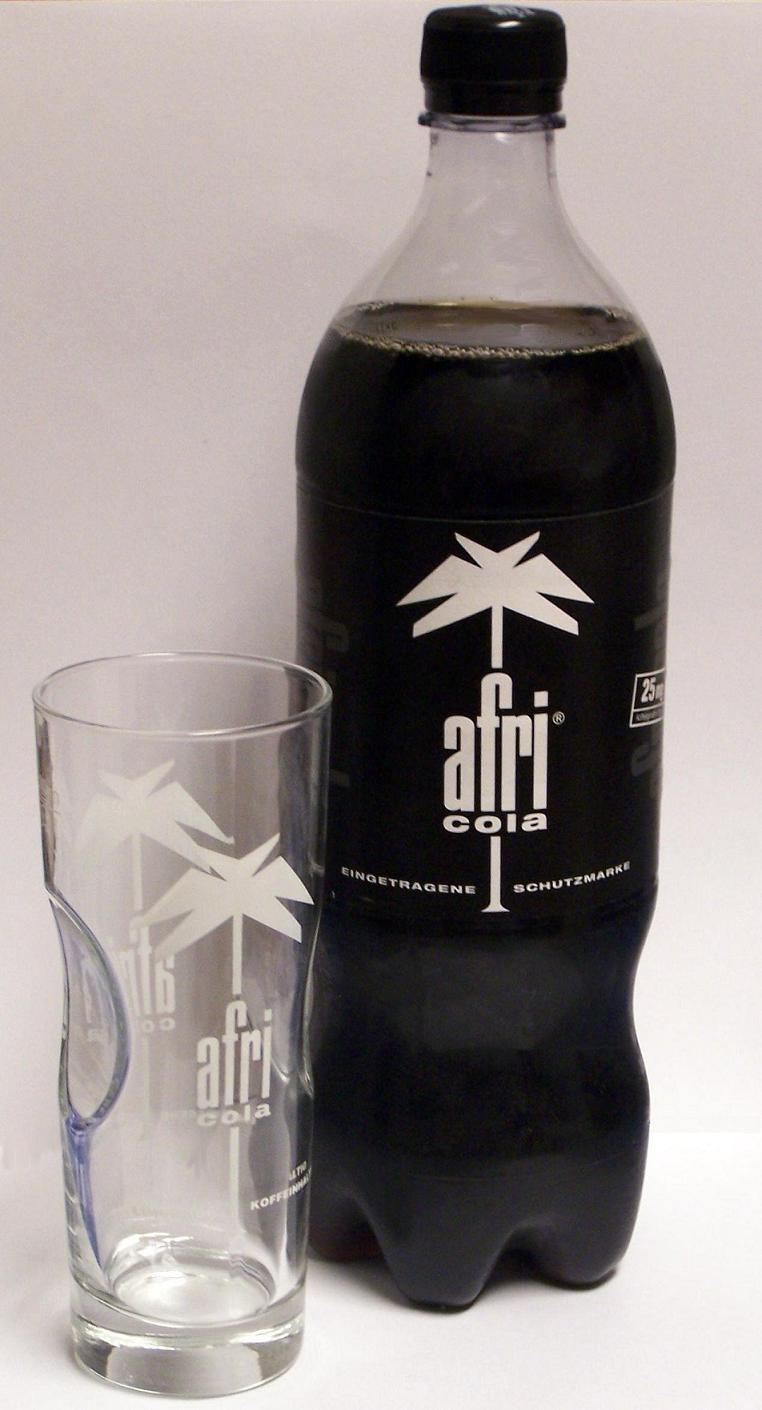 1 liter Afri-cola bottle with .2 liter Afri-Cola glass